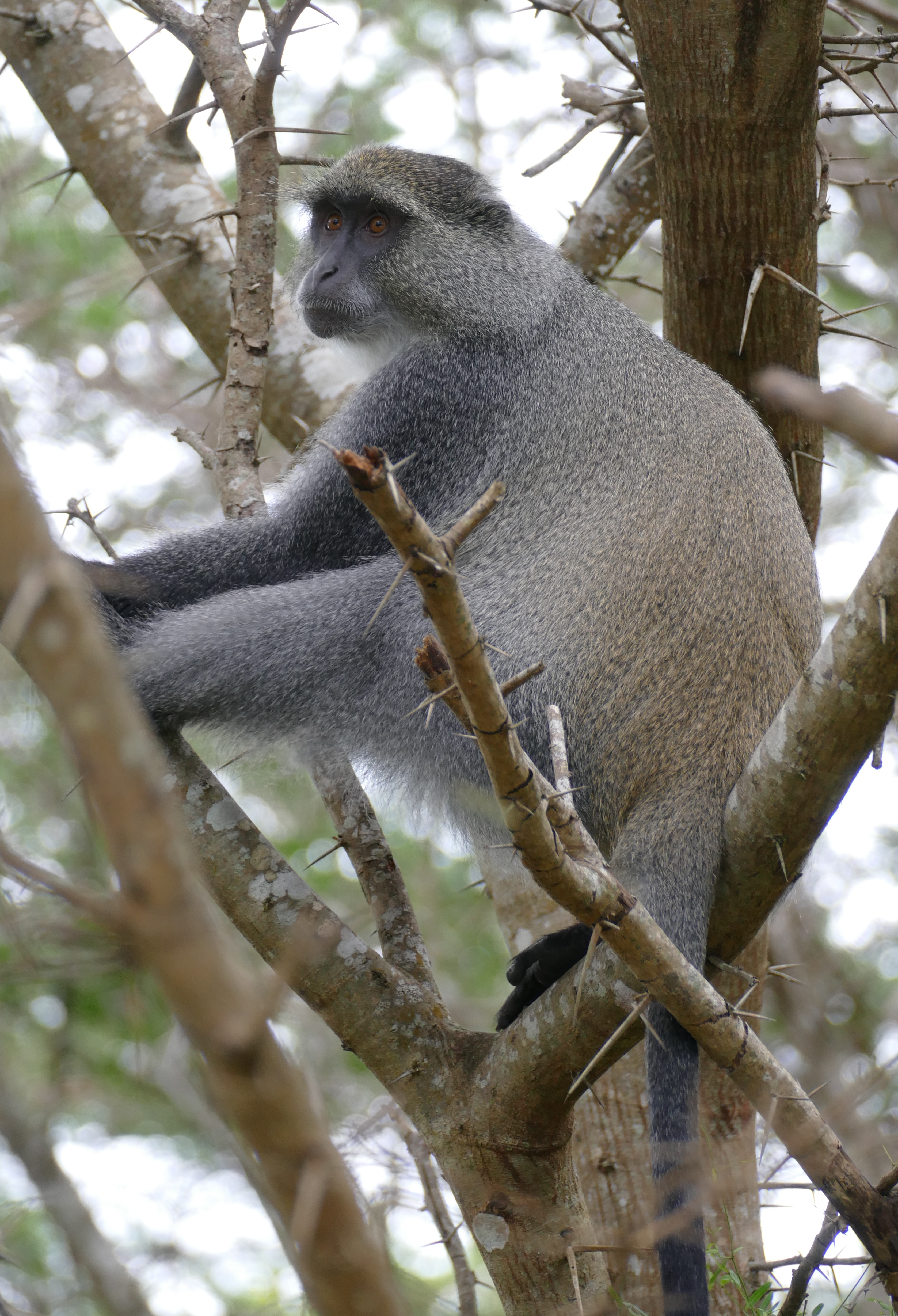 Samango monkey, Cercopithecus albogularis labiatus, at Cape Vidal, Eastern Shores of iSimangaliso Wetland Park, near St Lucia, KwaZulu-Natal, SOUTH AFRICA